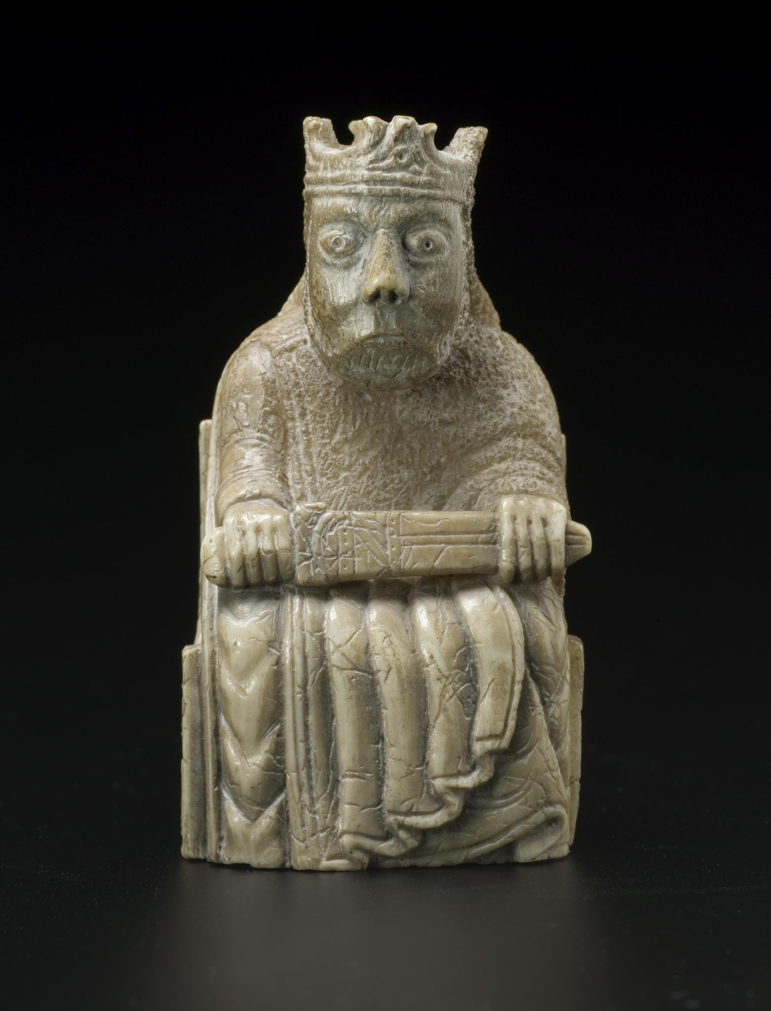 This file was uploaded as part of a partnership between Wikimedia UK and the National Museum of Scotland. This tag does not indicate the copyright status of the attached work. A normal copyright tag is still required. See Commons:Licensing. This work is free and may be used by anyone for any purpose. If you wish to use this content, you do not need to request permission as long as you follow any licensing requirements mentioned on this page.